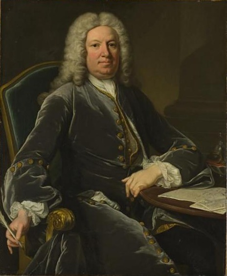 Portrait of Horace Walpole (1676-1745)